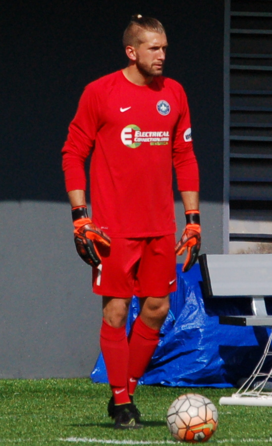 Mark Pais Taken during a USL regular season match between FC Cincinnati and Saint Louis FC at Nippert Stadium in Cincinnati, USA on September 5, 2016.